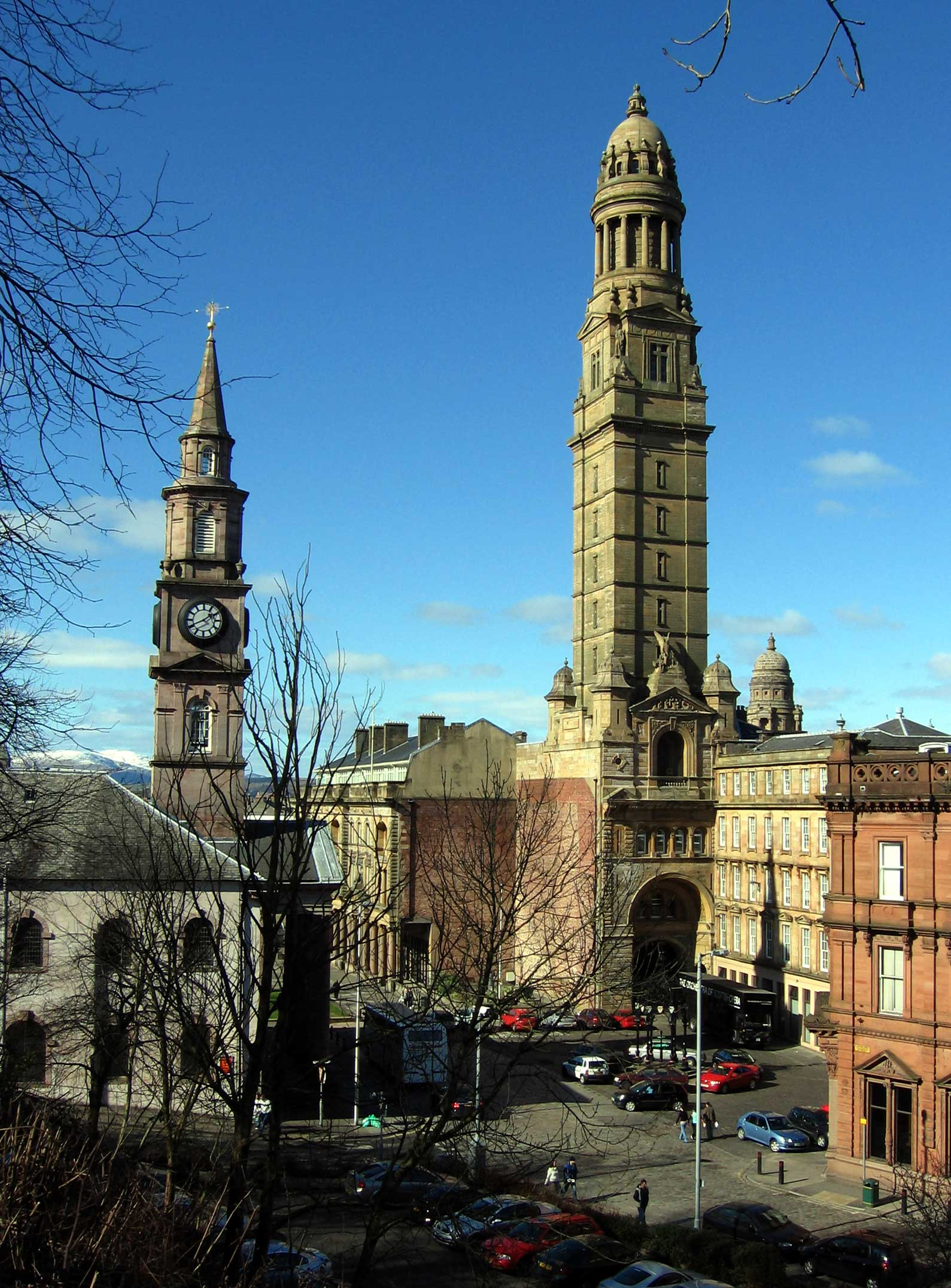 Greenock Municipal Buildings featuring the Victoria Tower photograph taken in 21 March 2006 by User:Dave souza. Any re-use to contain this licence notice and to attribute the work to User:Dave souza at Wikipedia.